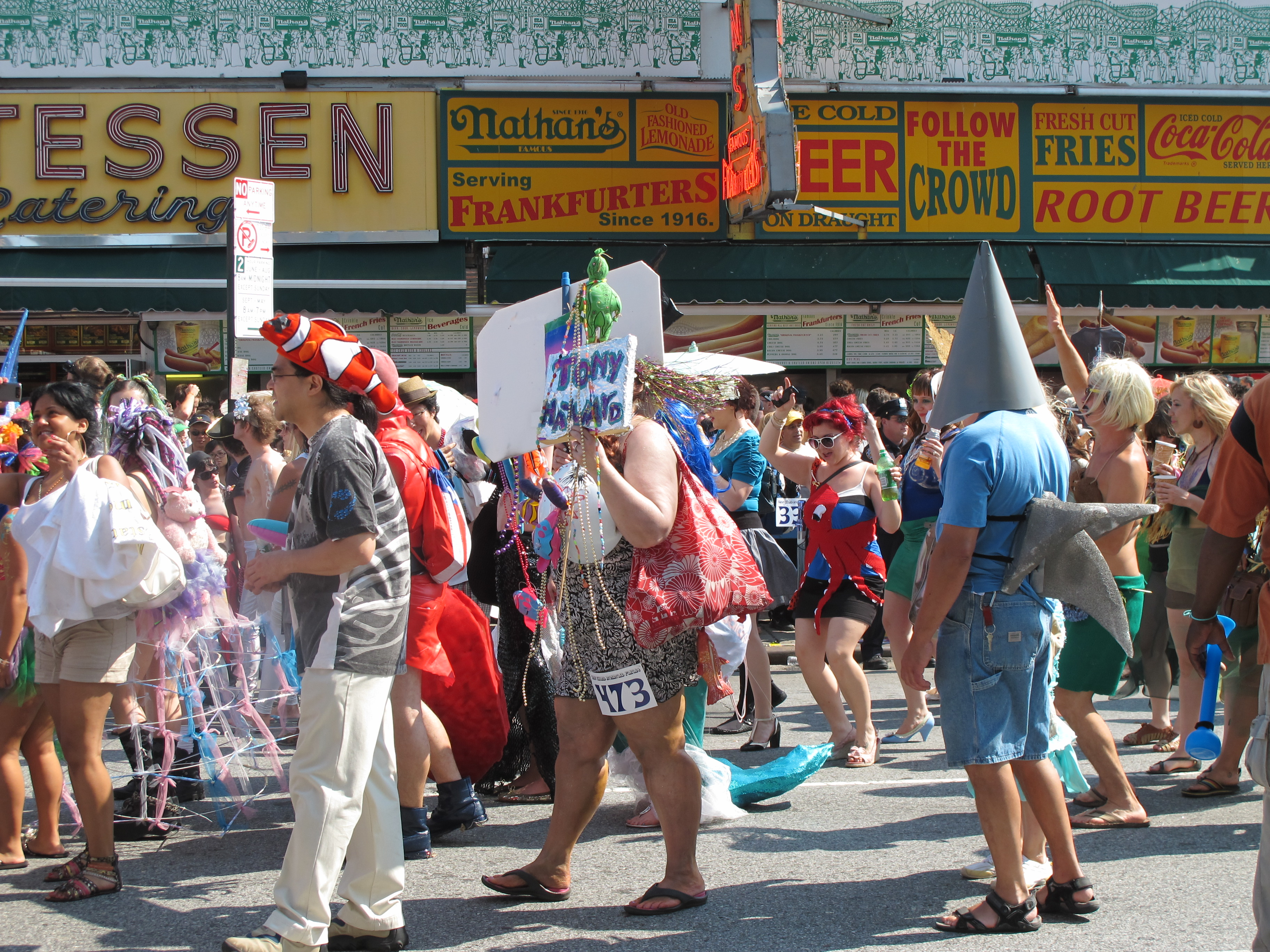 The Mermaid Parade to celebrate the beginning of summer, Coney Island, New York City, 2010